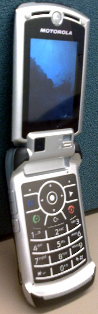 Photo of the Motorola RAZR V3x mobile phone.